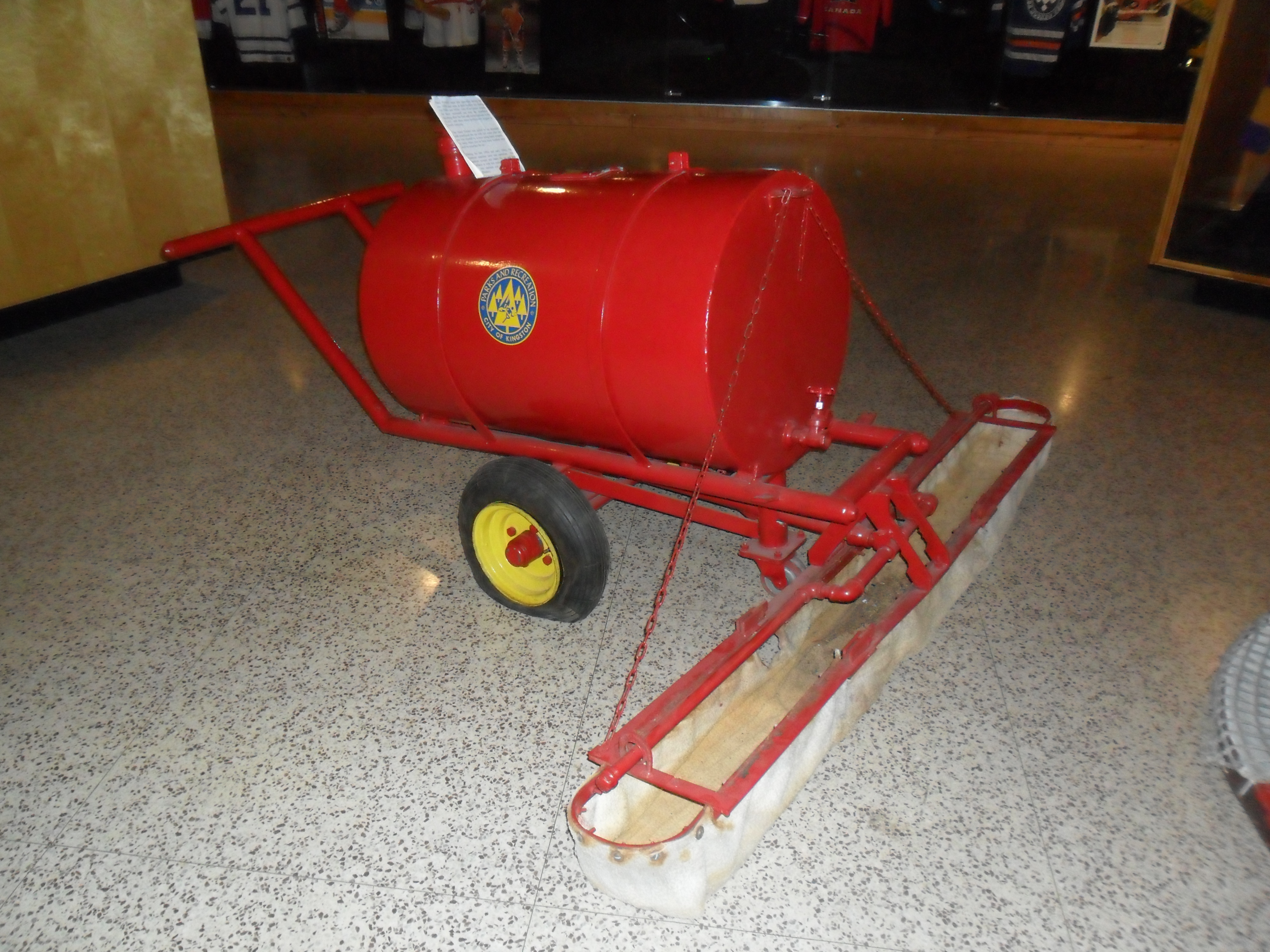 Prior to the invention of ice resurfacers, this device was used to evenly coat an ice surface with water. This one was used by Kingston, Ontario. It is now in the collection of the International Ice Hockey Hall of Fame.